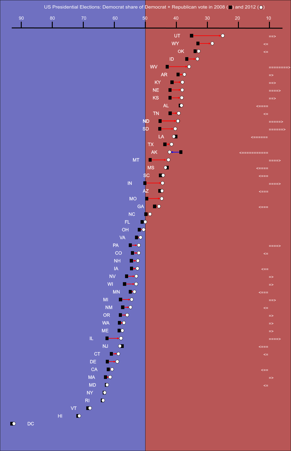 A chart of the 2012 US presidential election result compared to 2008 ranked by state